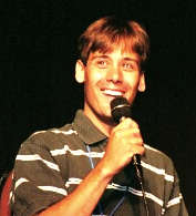 Original snapshot - all rights released to public domain; Christopher Peter "Chris" Demetral (born November 14, 1976) is a former American actor best-known as Jeremy Tupper, the son of newly-divorced New York book editor Martin Tupper (played by Brian Benben) on the HBO series Dream On.